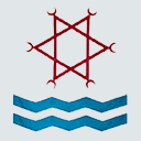 Flag of Tekke based on the Catalan Atlas.